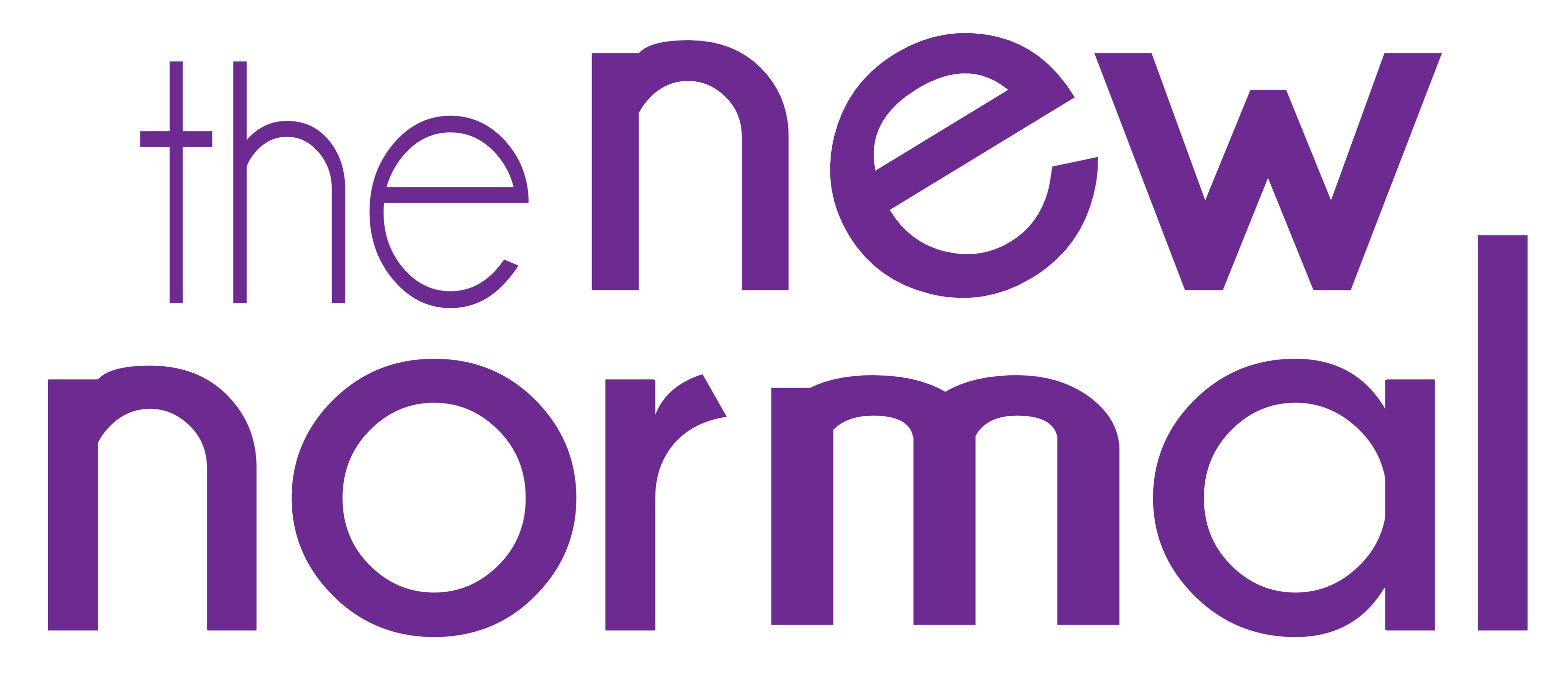 Logo of the television series The New Normal